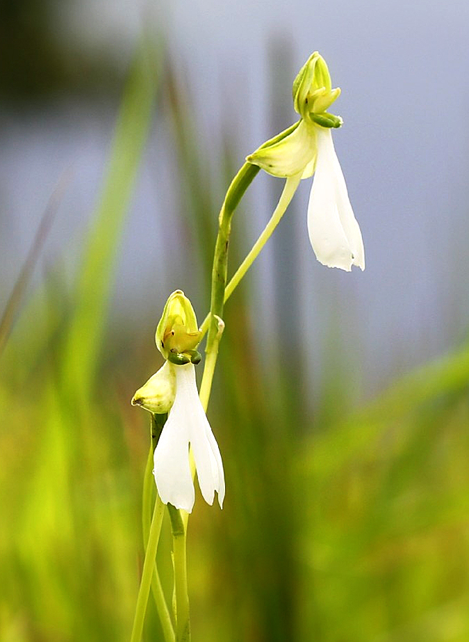 also known as habenaria orchid .It is endemic to westren ghats of india